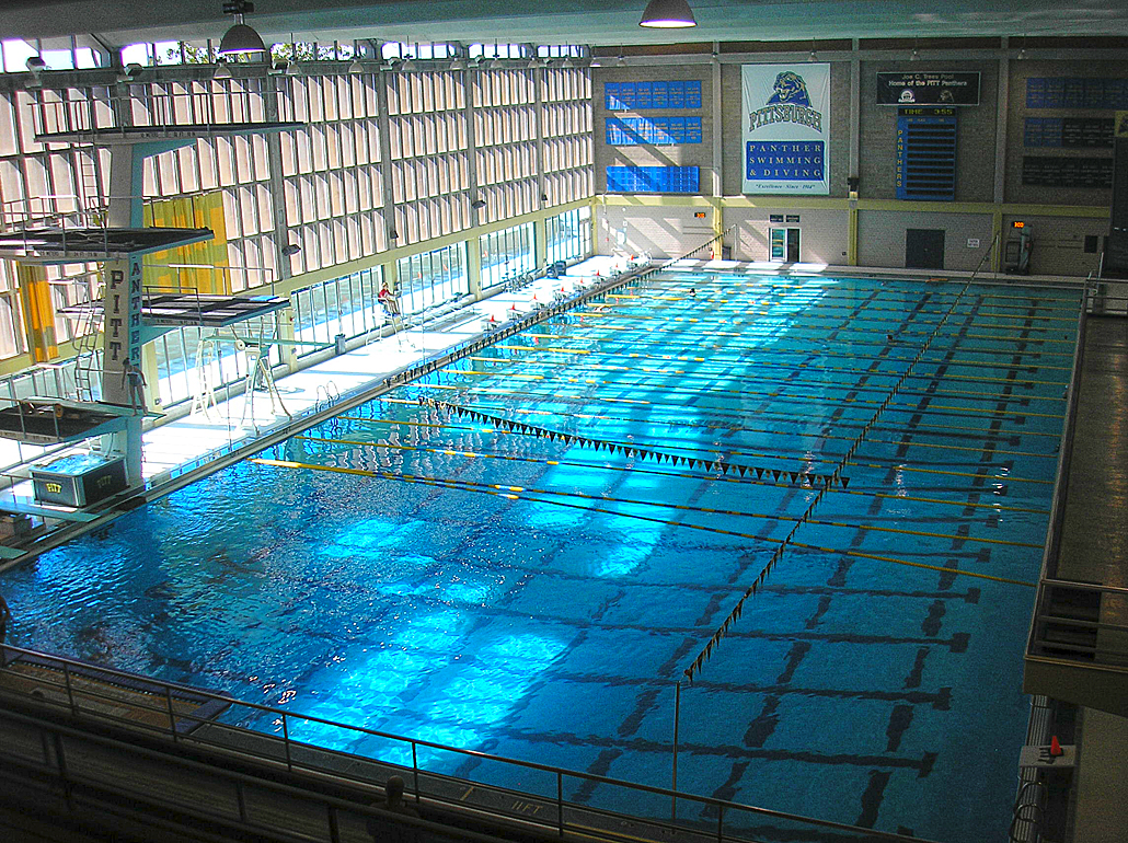 Trees Pool at the University of Pittsburgh